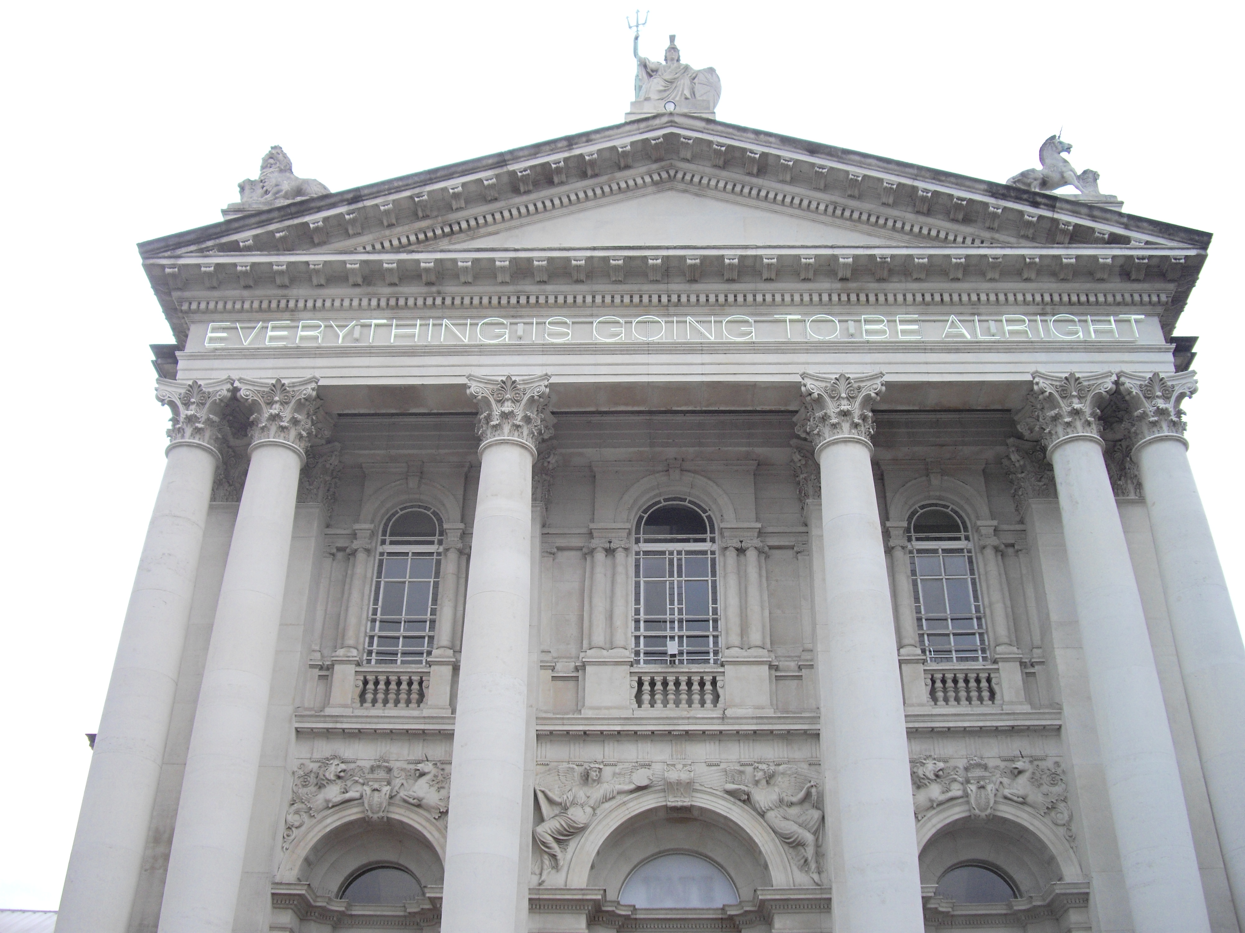 Everything is going to be Alright at the Tate Britain The words Everything is going to be alright have been written across the top of the entrance of the Tate Britain they are work number 203 by Martin Creed 1999